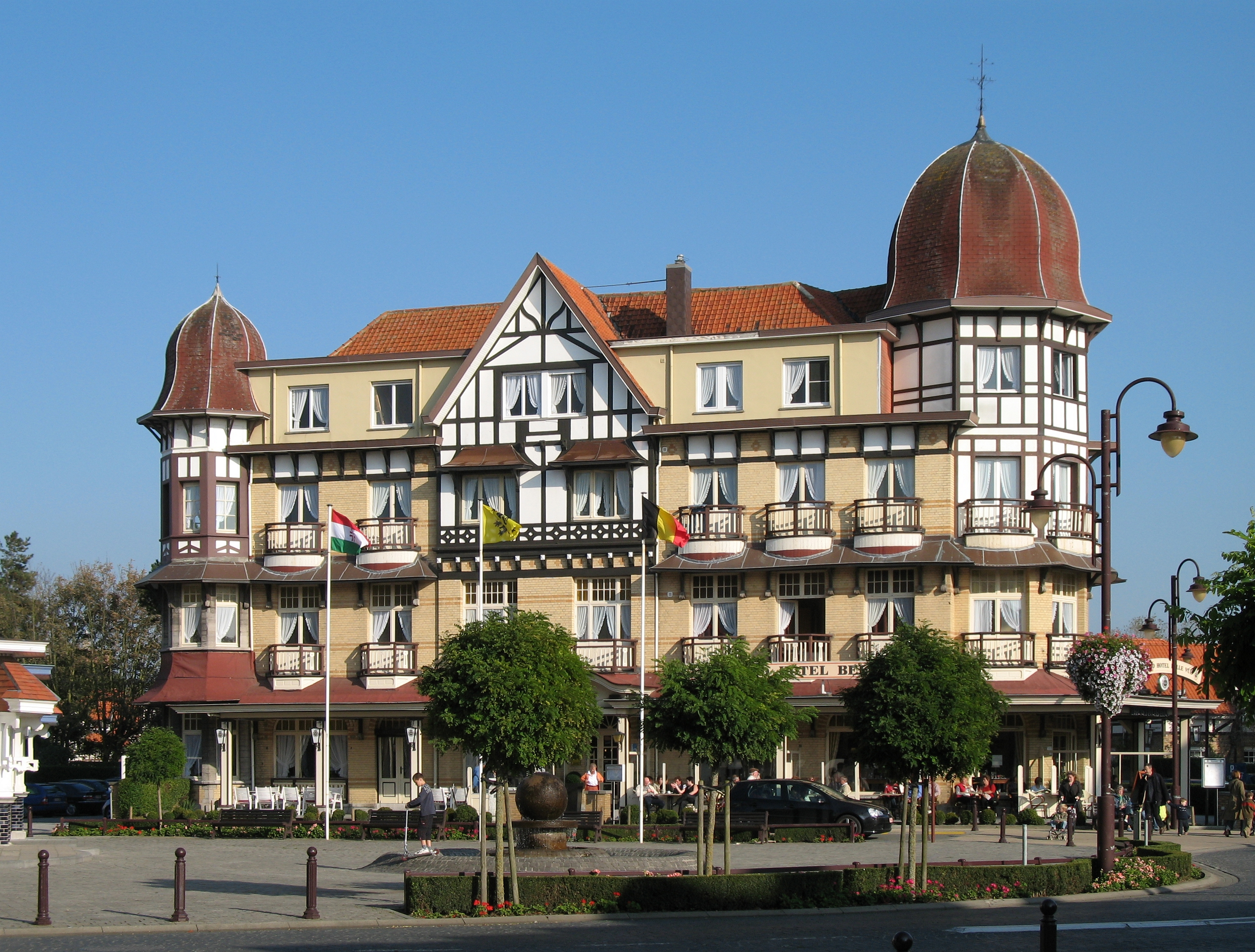 De Haan (Province of West Flanders, Belgium): Grand Hôtel Belle Vue